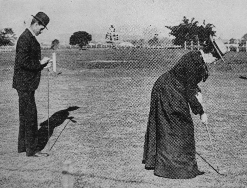 Participant in the ladie's putting competition, Chelmer Links, 1903. Opening of the golf season at Chelmer Links. Mrs D. R. Eden is putting in the ladie's putting competition. Mr H. W. Apperly is scoring. (Description supplied with photograph.).